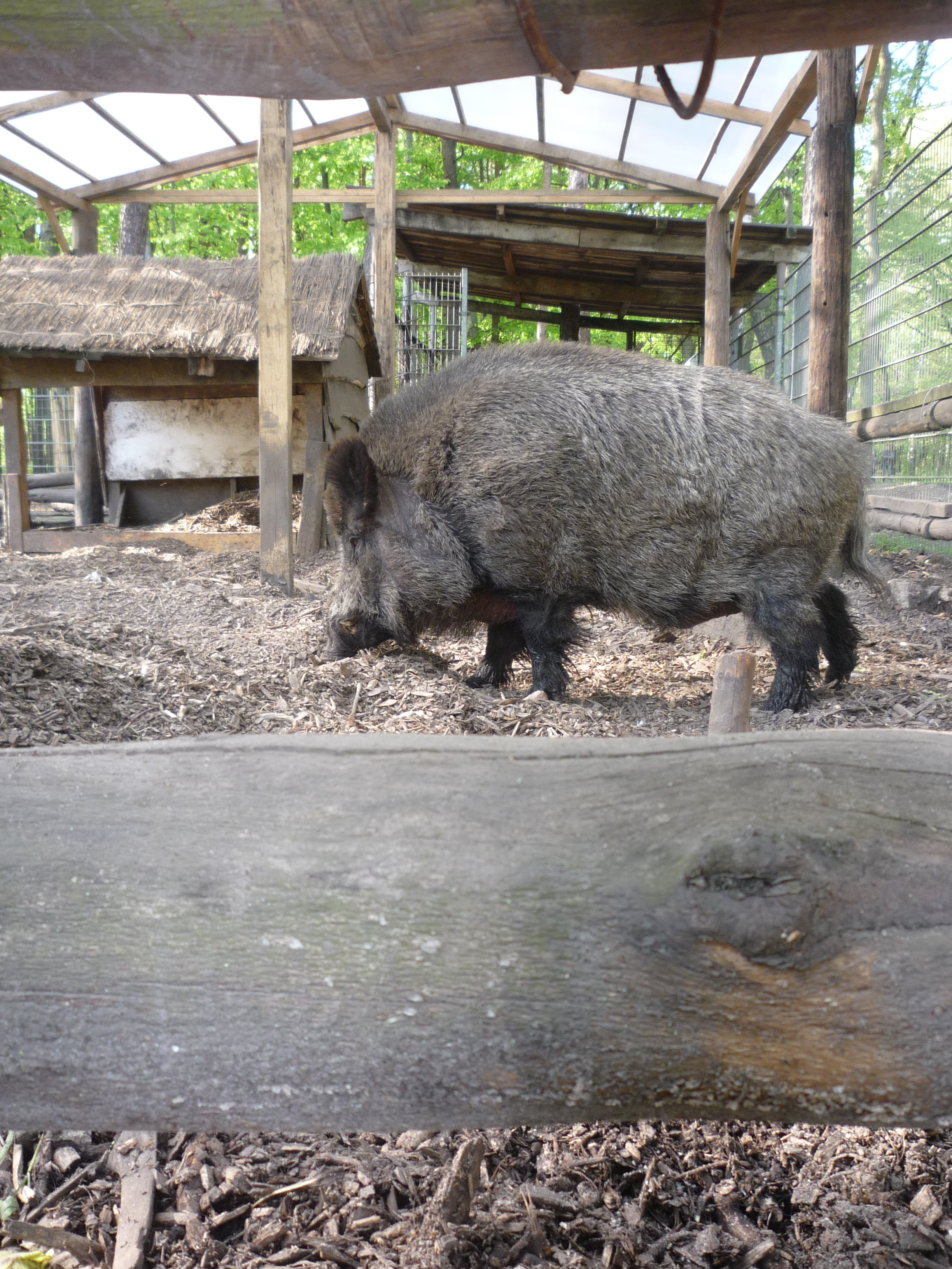 a hybrid of wild boar and domestic pig in Dąbrowa Górnicza Park "Zielona"